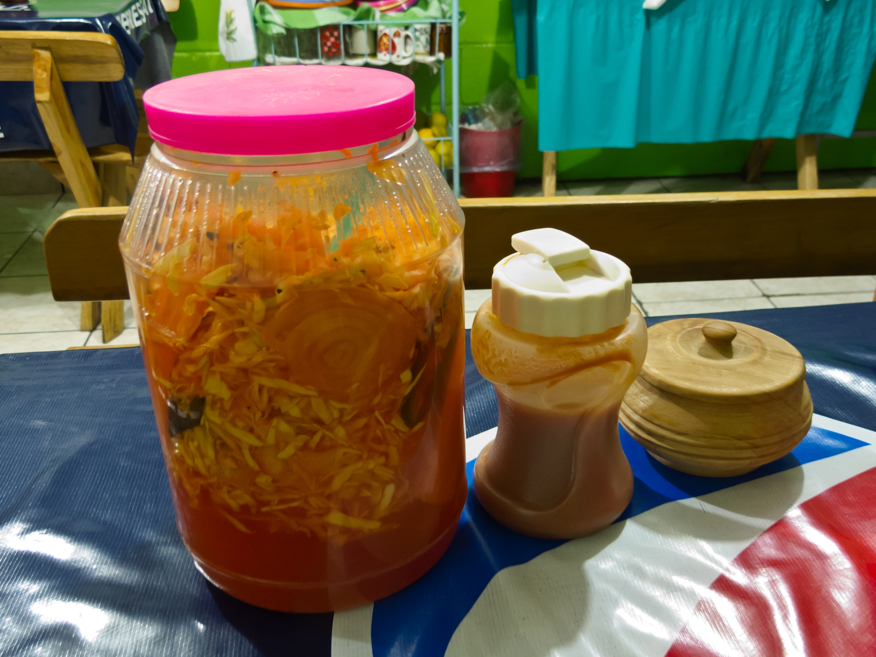 Condiments for Pupusas, typical for El Salvador (This photo here was taken in Olocuilta, La Paz, El Salvador). Large container at left is the vingared cabbage (curtido), tomato sauce in the middle. (Wooden sugar bowl at right has sugar for coffee)